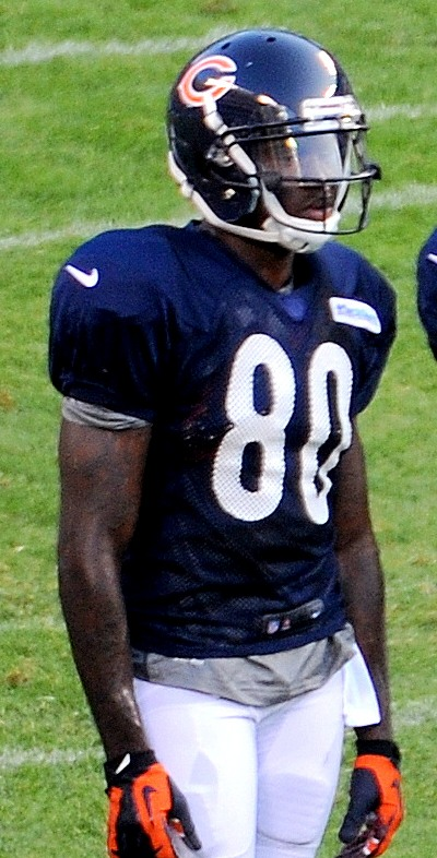 Wide receiver, Armanti Edwards, at Chicago Bears training camp in 2014.